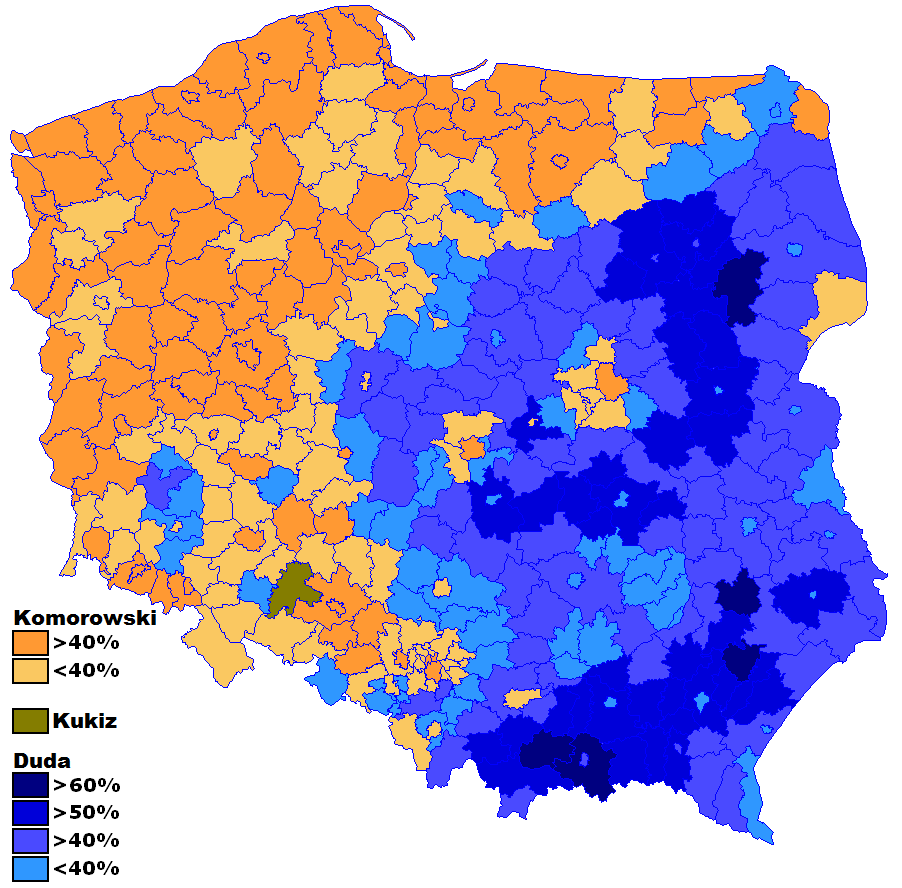 Polish presidential election, 2015 - results of the I round (10 May 2015) by counties